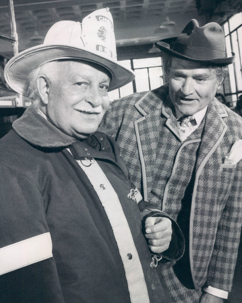 Photo of Arthur Fiedler and Red Skelton from the television program The Red Skelton Show. Fiedler was very interested in firefighting; he played a firefighter in one of the skits on the show while Skelton is shown as his character Clem Kadiddlehopper.